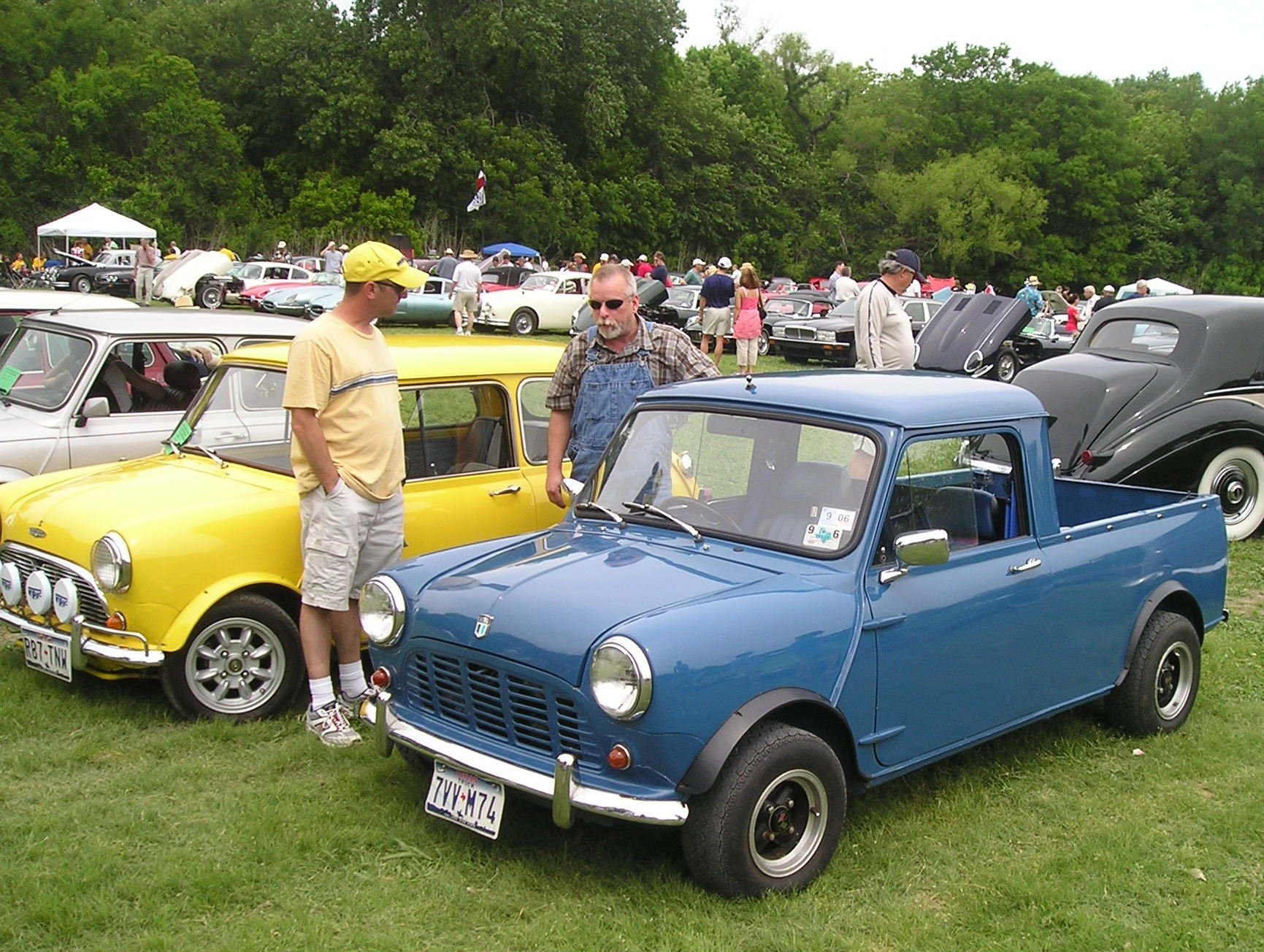 A Mini pickup truck - photographed at the All British Car Day at White Rock Lake in Dallas, Texas in April 2006. The wheels, wheel-arch "spats" and mirrors are later additions. Notably, this example has 10 inch wheels, the same size as the original steel wheels.